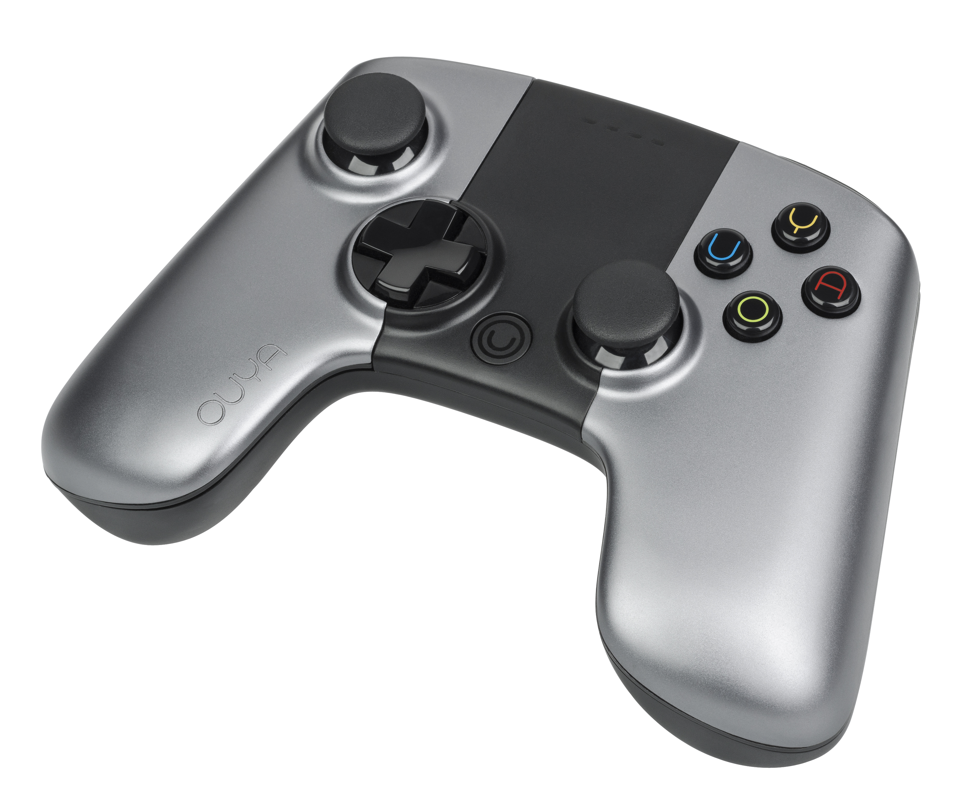 The controller for the Ouya, a gaming microconsole that runs a modified version of the Android operating system. Released in 2013, the Ouya started out as a Kickstarter project that raised over 8 million dollars. Though based off of phone hardware and an Android operating system, games for the system must be specifically ported to the Ouya and sold through its digital distribution service. The Ouya's controller features a touchpad in the middle, which can be used to move a cursor on screen. The controller also features removable face plates that reveal the battery ports.